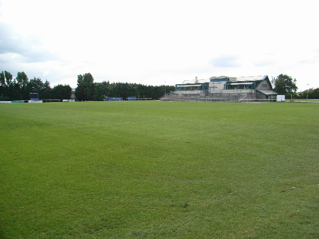 St. Mary's College Rugby Football Club, Templeogue Located off the Templeville Road. Looks like the posts have been removed for the summer.